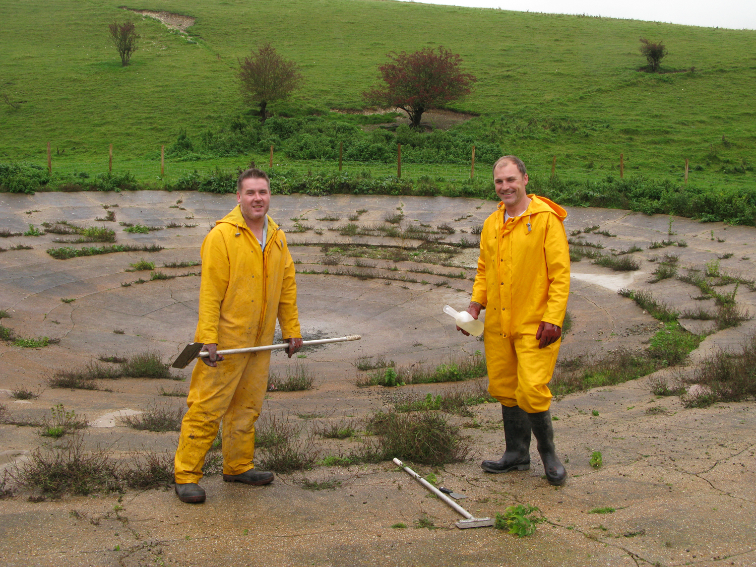 Dew pond under repair at Oxteddle Bottom, Sussex, England